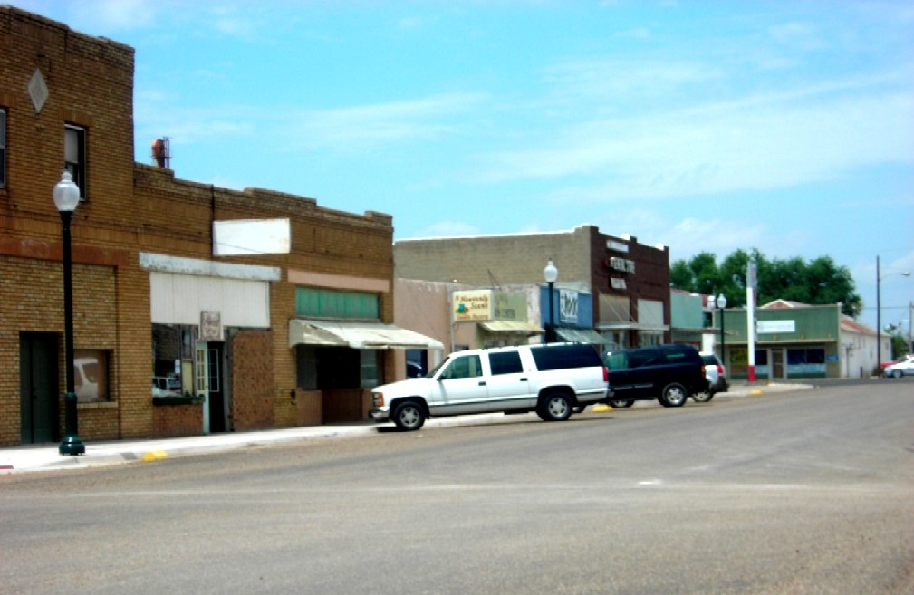 A row of businesses in dowtown Idalou, Texas.